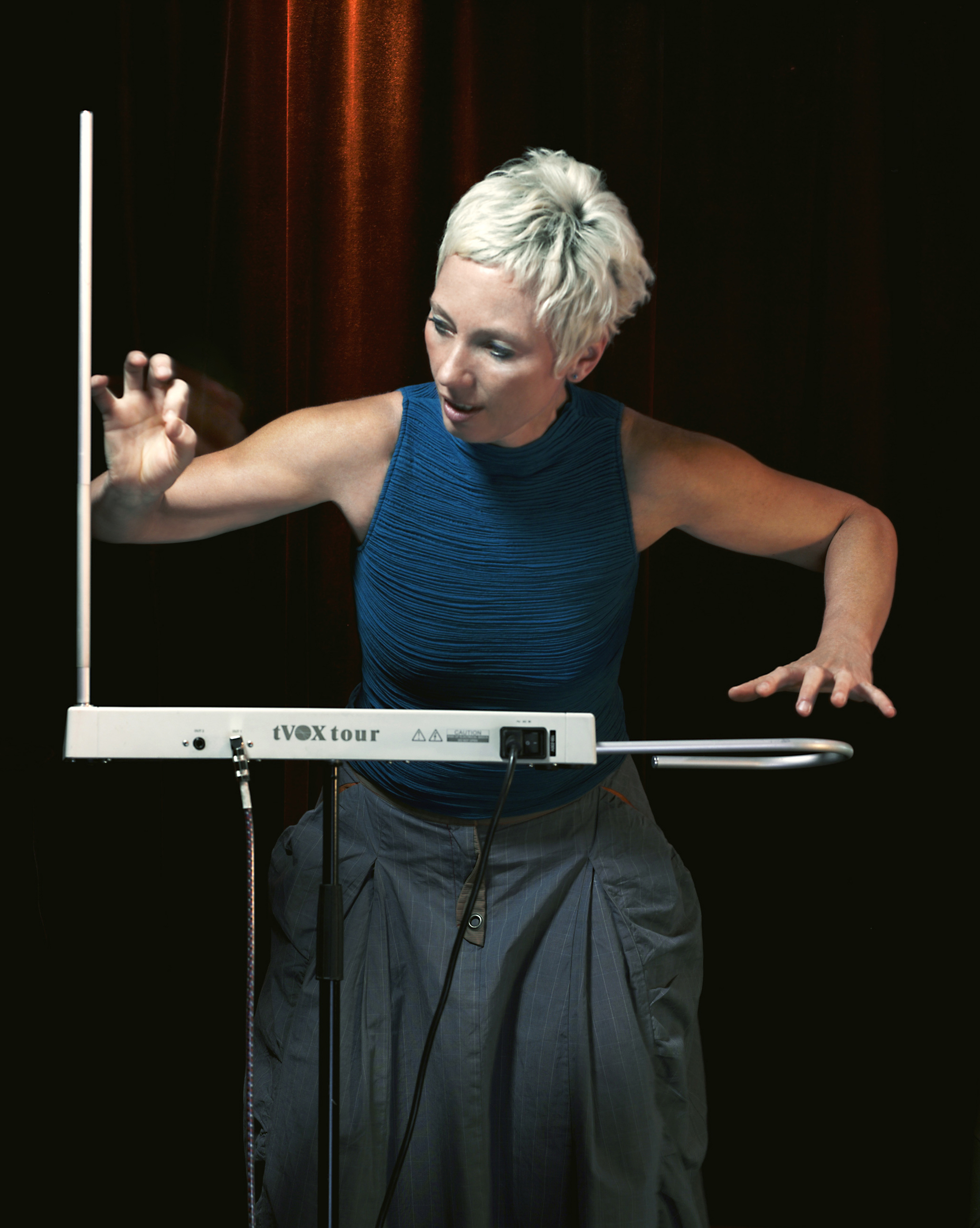 Barbara Buchholz playing the model TVox by George Pavlov.